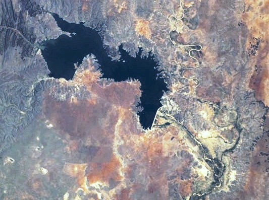 NASA picture of the Massingir Dam with the Shingwedzi River flowing close to the northeastern side of the reservoir and joining the Rio dos Elefantes about 12 km downstream from the dam wall